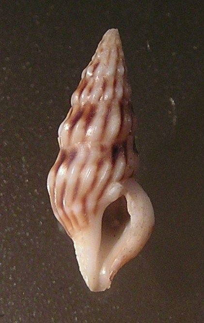 Iredalea inclinata (Sowerby III, 1893), a sea snail from the family Drilliidae; South Africa Category:Drilliidae